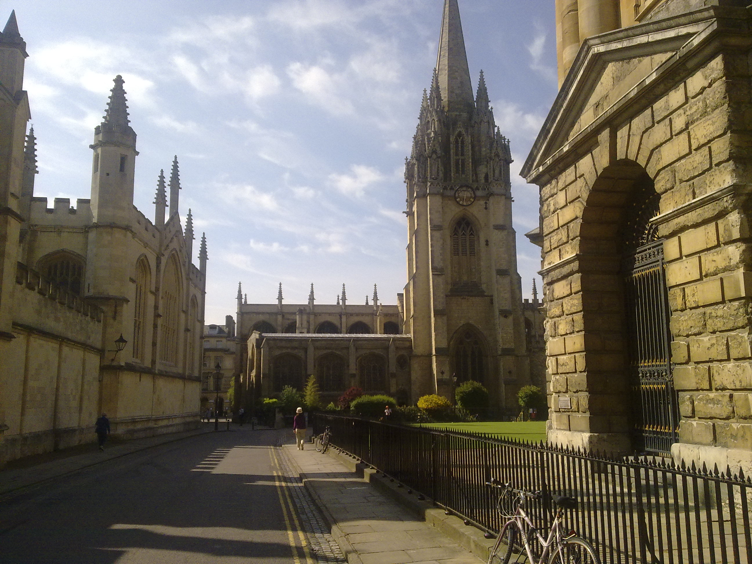 South east corner of Radcliffe Square, Oxford.